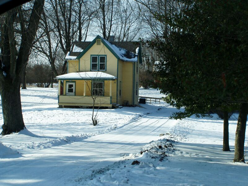 Pete Larsen Home in the Swedish Farm District of Porter, Indiana